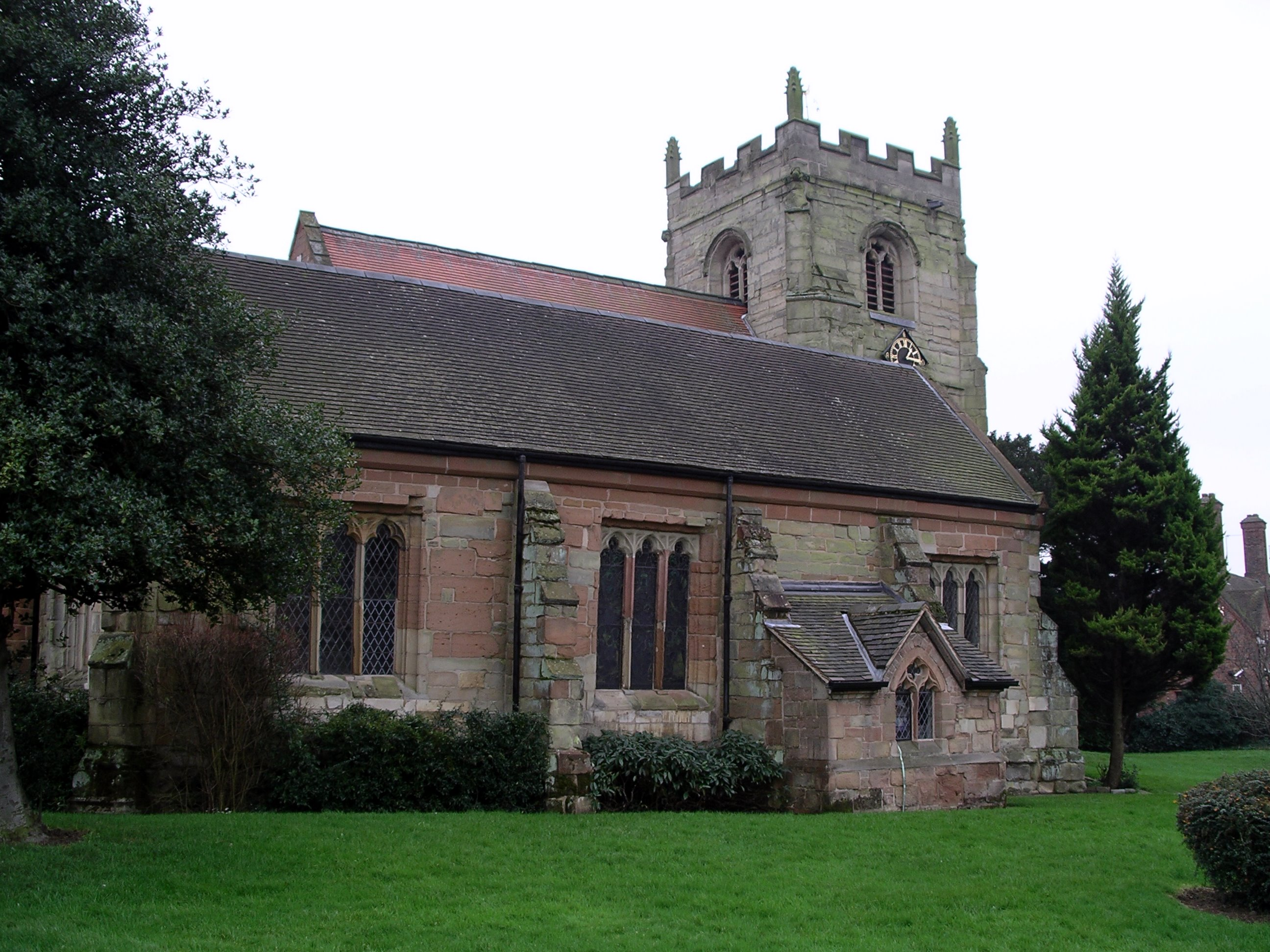 Photograph taken on 1 Feb 2007 by me of St Mary's Church (side view), Walsgrave, Coventry, England.